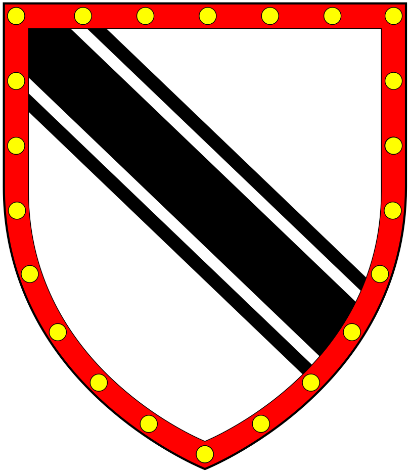 Arms of Westcott of Raddon in the parish of Shobrooke, Devon: Argent, a bend cotised sable a bordure gules bezantée (Vivian, Lt.Col. J.L., (Ed.) The Visitations of the County of Devon: Comprising the Heralds' Visitations of 1531, 1564 & 1620, Exeter, 1895, p.778)